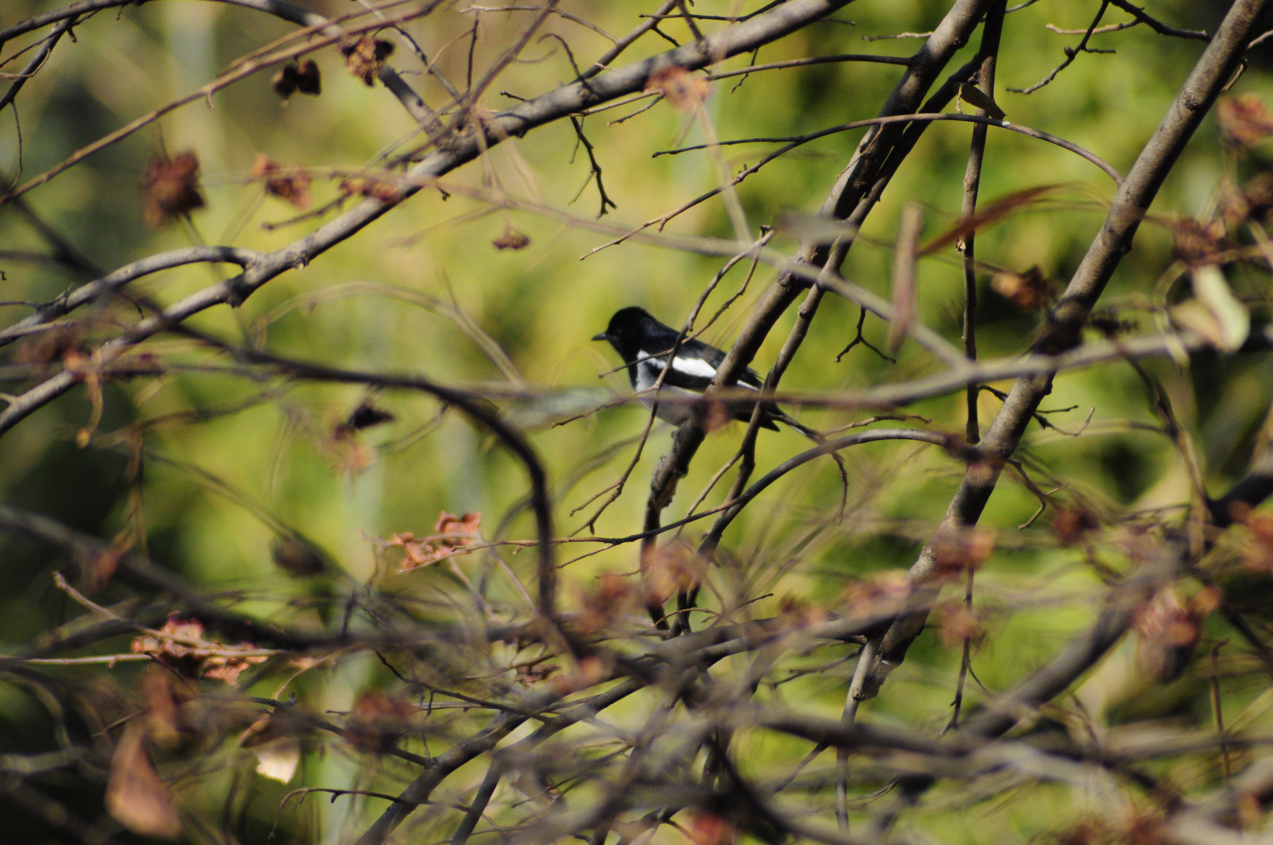 Birds in Sundarijal VDC